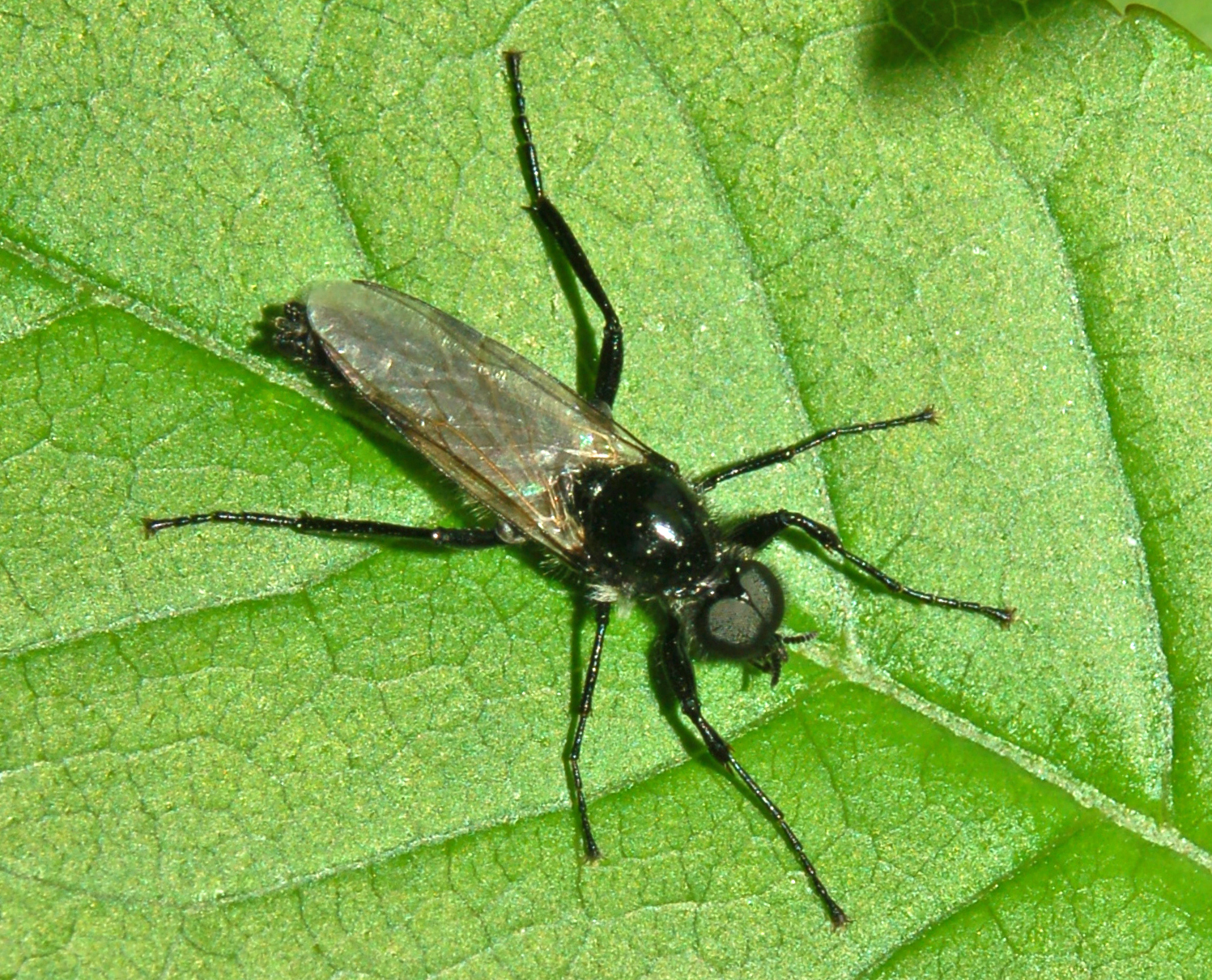 Bibio hortulanus, male. Cerreto Ratti, Alessandria, Italy